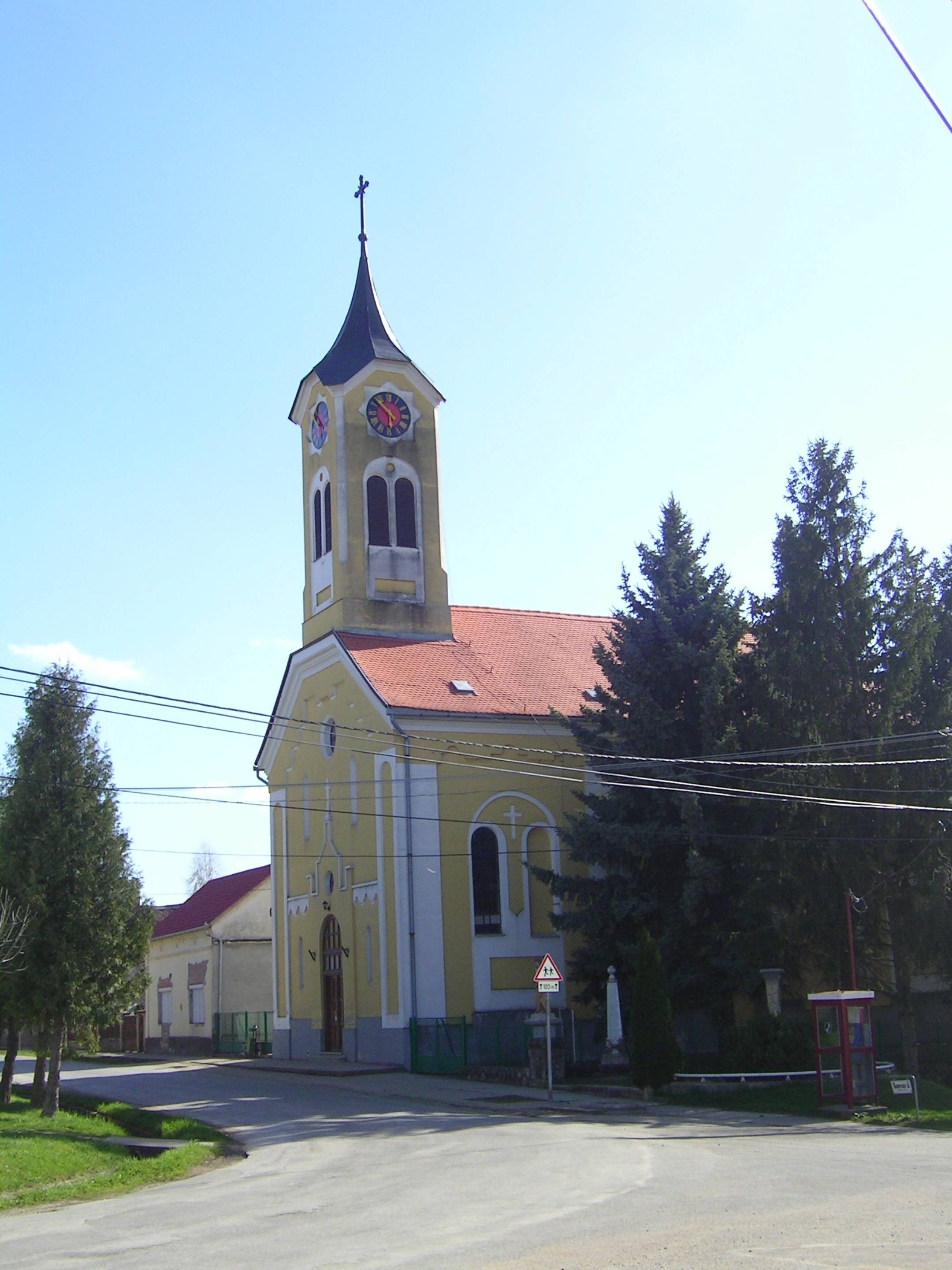 Roman catholic church in Töttös, Hungary